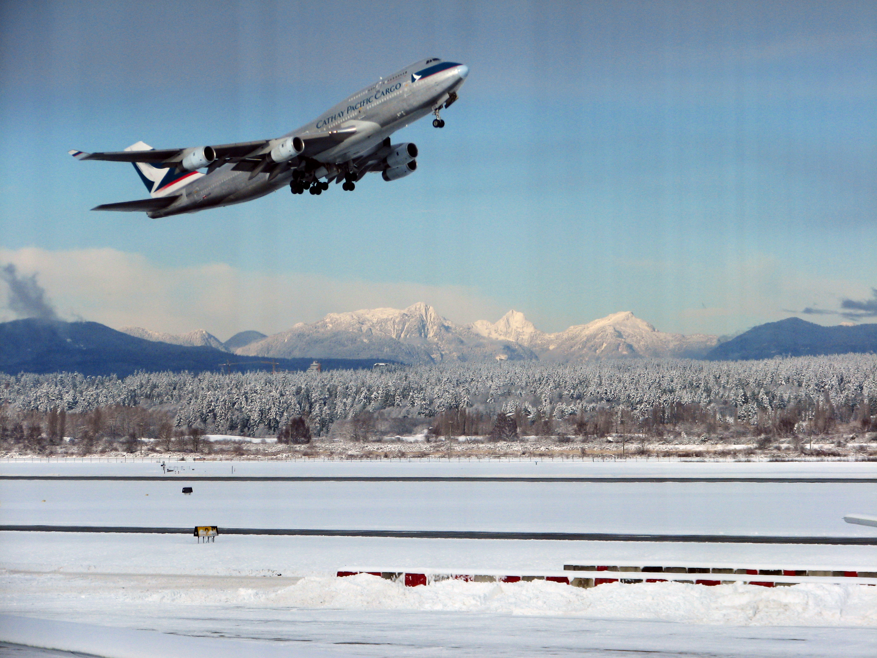 Boeing 747 of Cathay Pacific Cargo taking off from Vancouver International Airport in a rare snowy day.